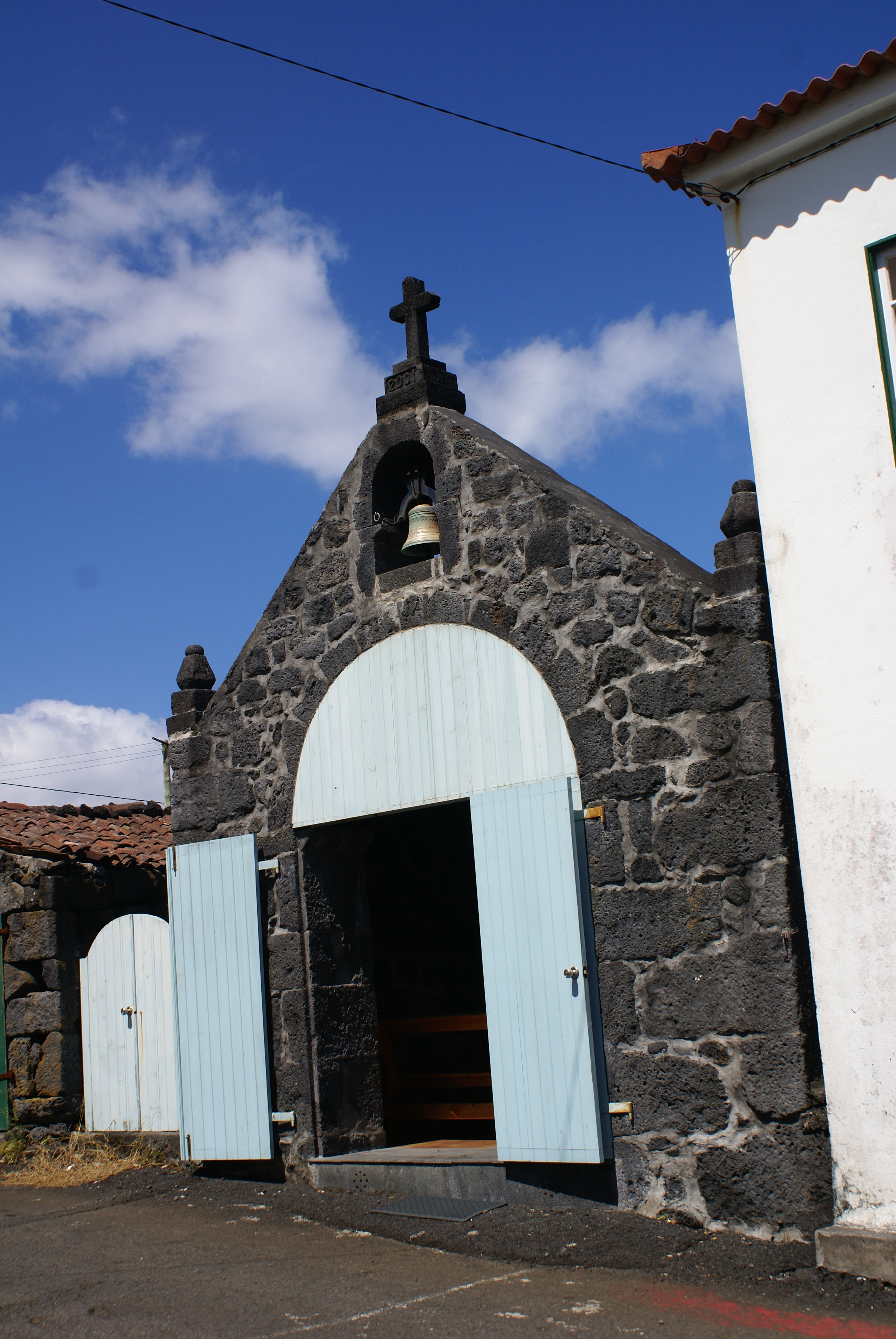 The open doorway and façade to the Chapel of Nossa Senhora da Boa Viagem, Calhau, Piedade, Lajes do Pico, Pico (Azores), Portugal